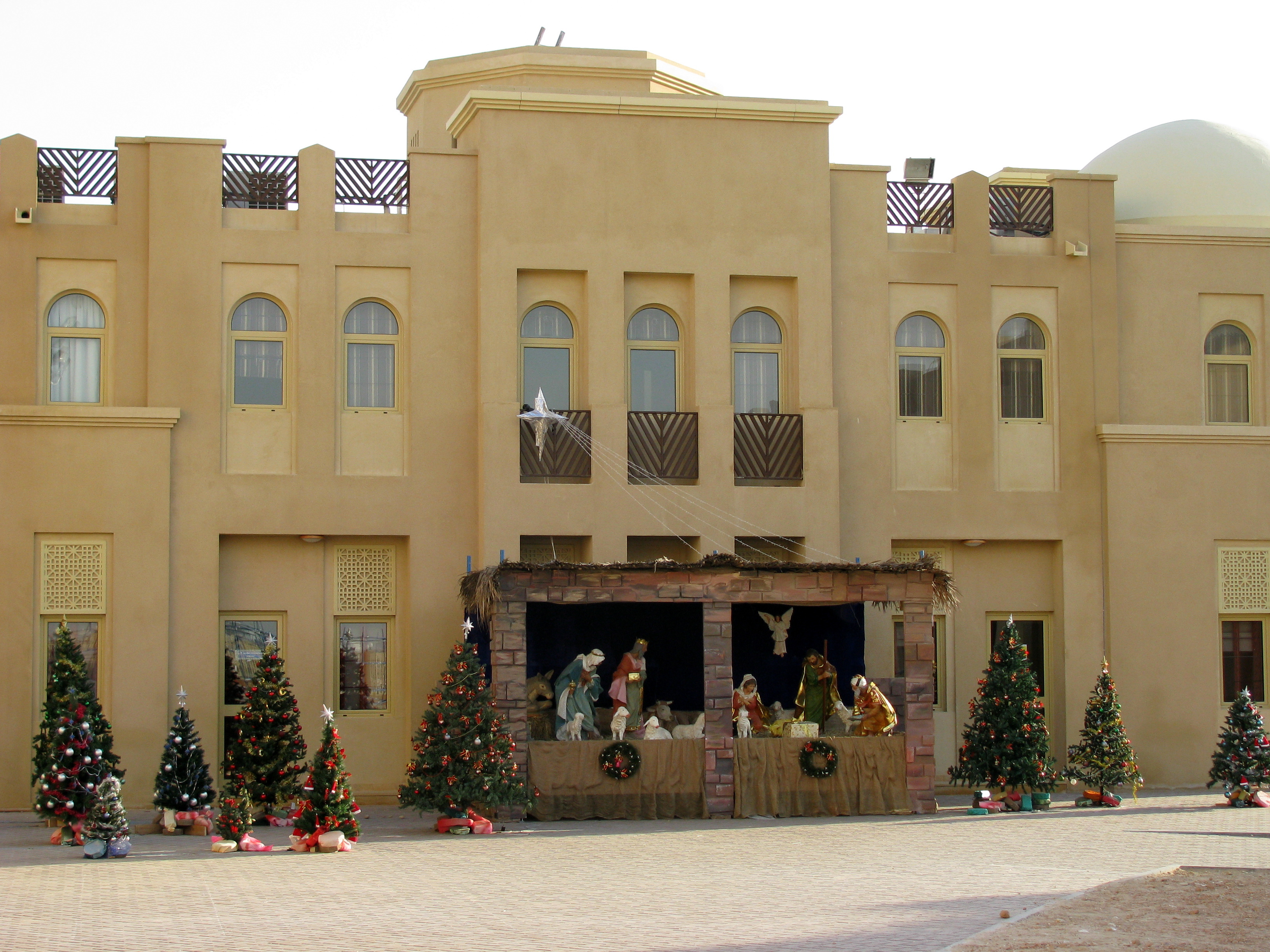 Qatar's first church building was opened in 2008 - Our Lady of the Rosary Catholic Church. We were visiting only a week before Christmas, and so they had a lovely nativity scene in the courtyard.